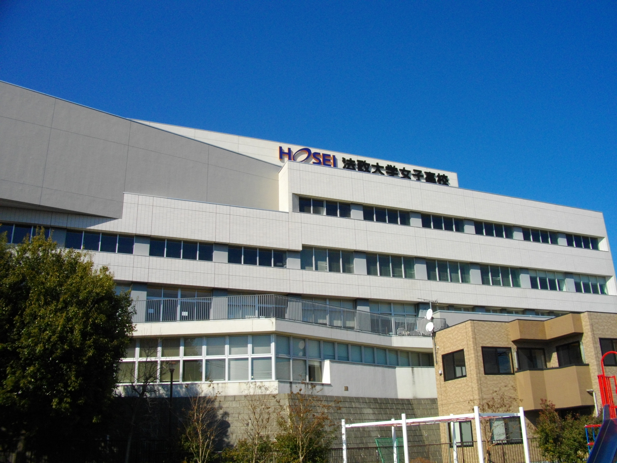 Hosei Univ. Girls High School